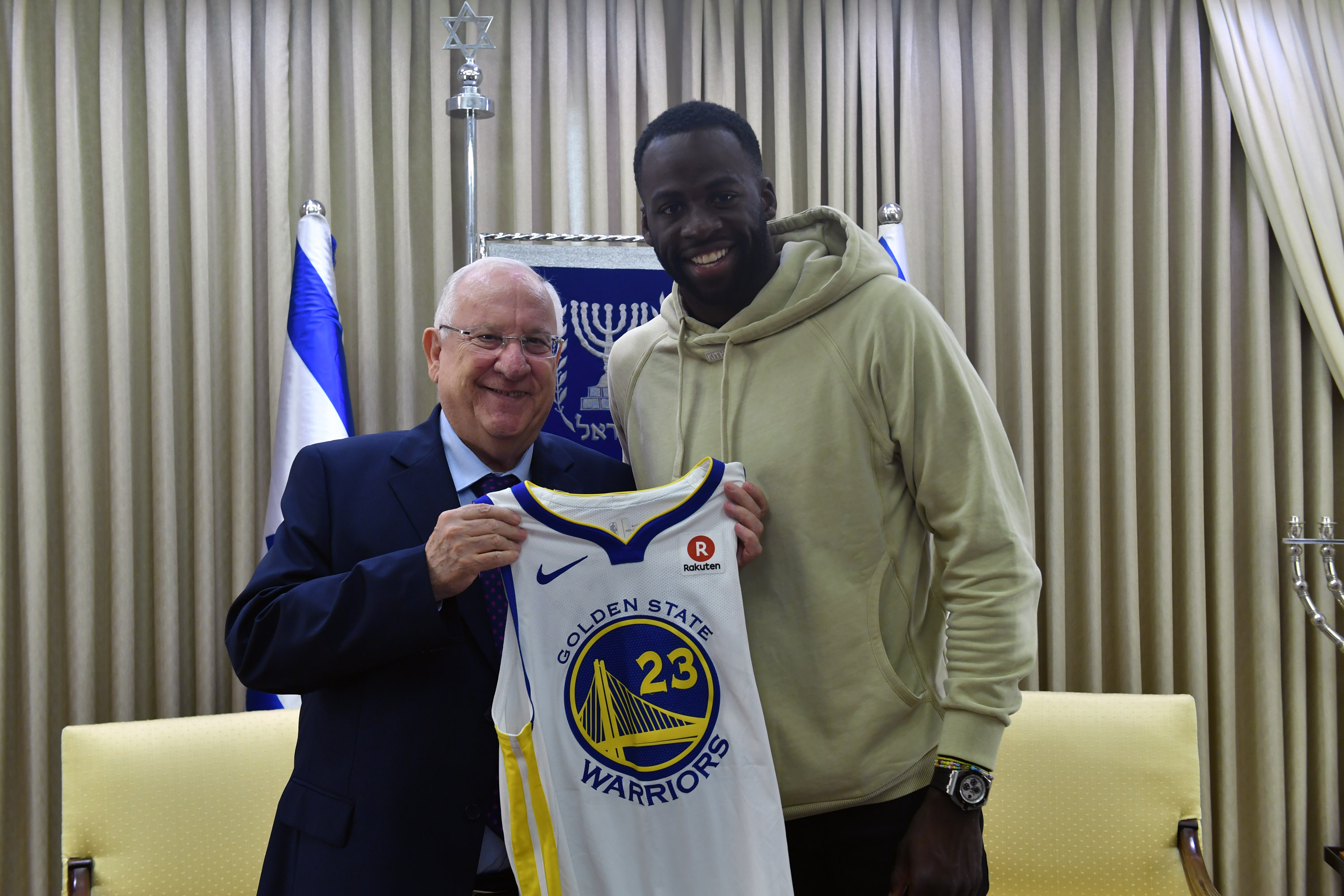 נשיא מדינת ישראל ראובן רובי ריבלין נפגש עם השחקן דריימונד גרין מקבוצת גולדן סטייט